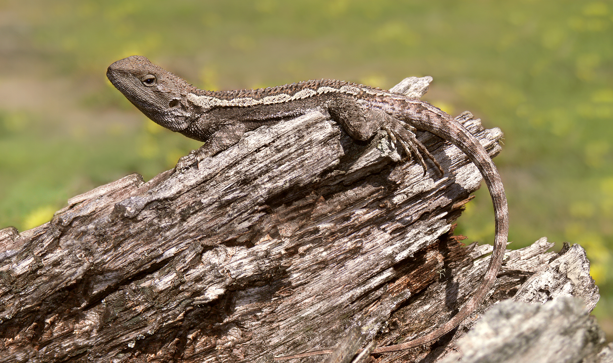 A Tree Dragon or Jacky lizard Amphibolurus muricatus , taken in South-eastern Australia.